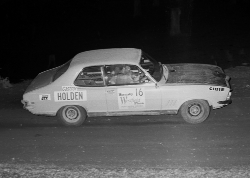 Barry Ferguson and Dave Johnson in the HDT Torana GTR XU-1, winners of the 1970 Southern Cross Rally - Photo by Graham Ruckert